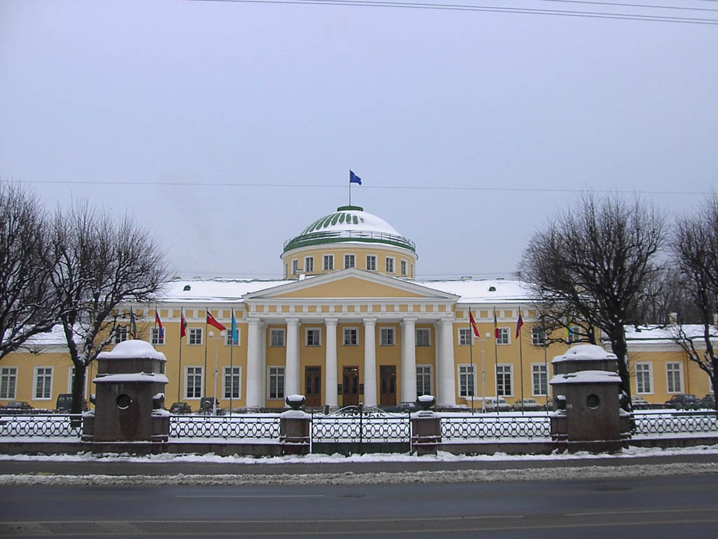 The Tauride Palace in Saint Petersburg, Russia.